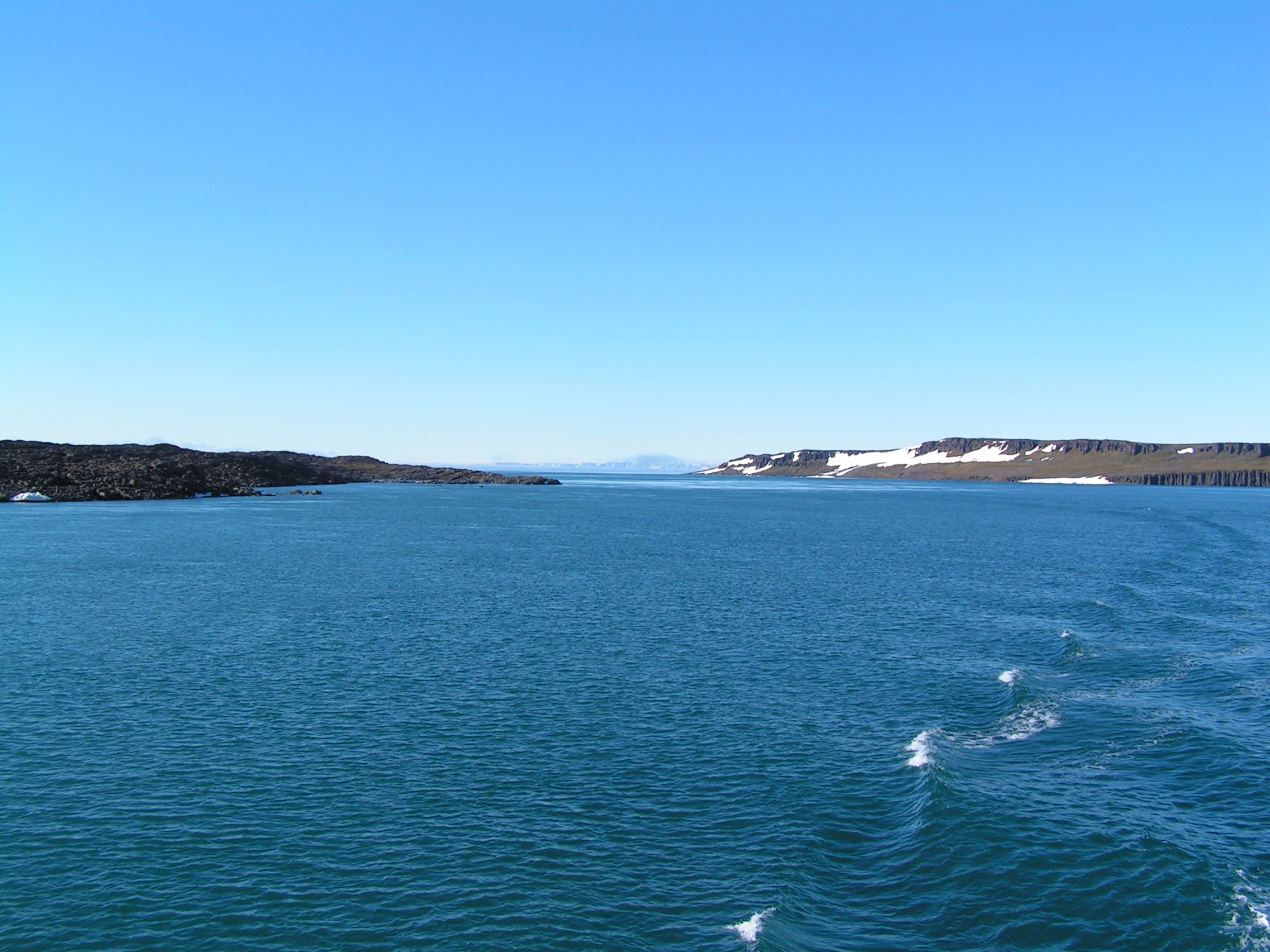 Heleysundet Svalbard, seen from the east